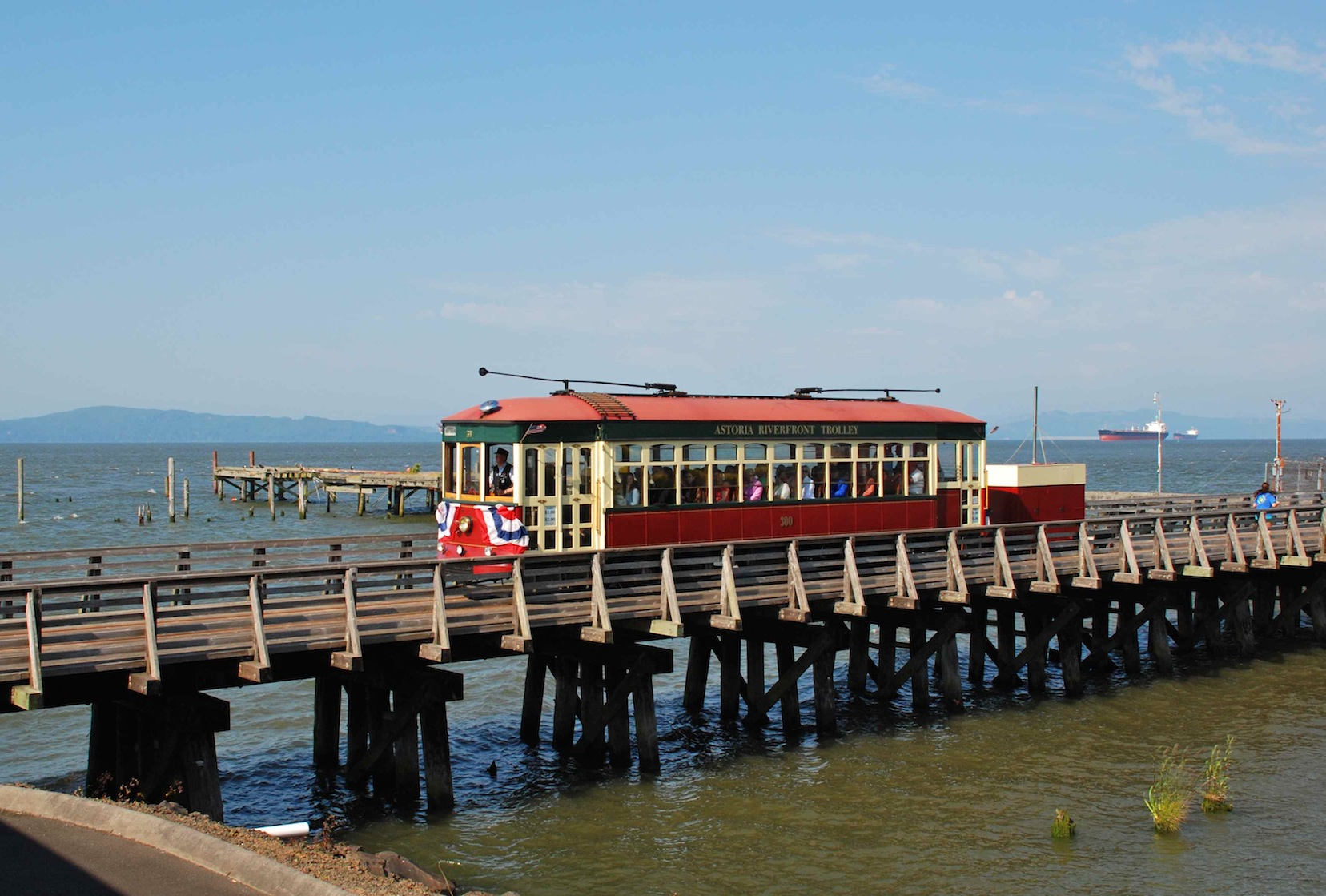 Astoria Riverfront Trolley car 300 westbound on a trestle over a minor inlet of the Columbia River. This heritage streetcar line in Astoria, Oregon, has been in operation since 1999. Car 300 is an ex-San Antonio (Texas) streetcar built in 1913 by the American Car Company, by that time a subsidiary of the J. G. Brill Company. Although the Astoria line is not equipped with overhead trolley wires, car 300's two trolley poles (one for each direction of travel) have been re-installed on its roof, to improve the historical accuracy of the car's appearance.